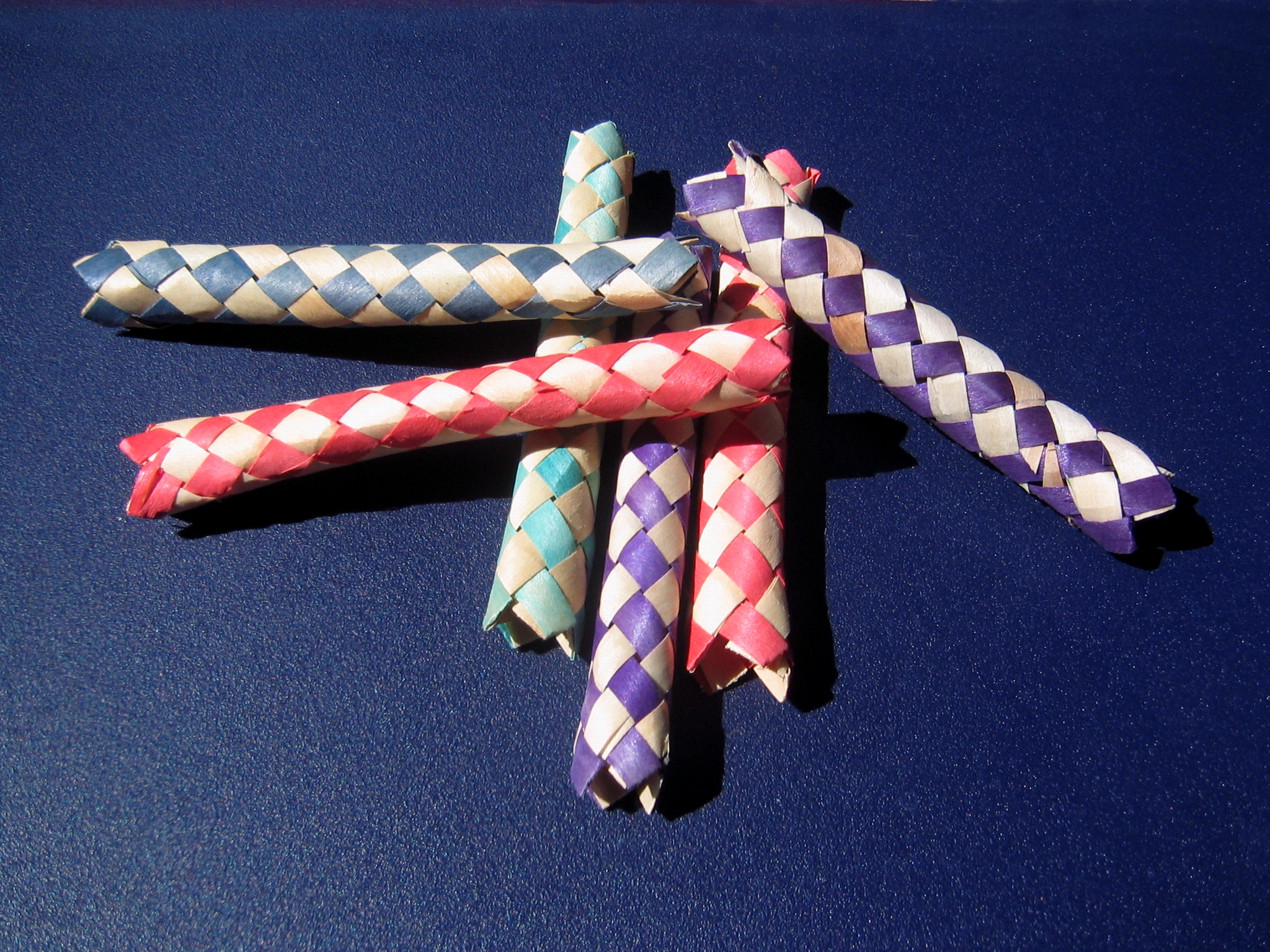 Chinese finger trap (also known as Chinese finger prison, Chinese finger cuffs, Chinese finger puzzle, Chinese handcuffs, Mexican finger fun, Chinese finger torture and Mexican handcuffs) toys.